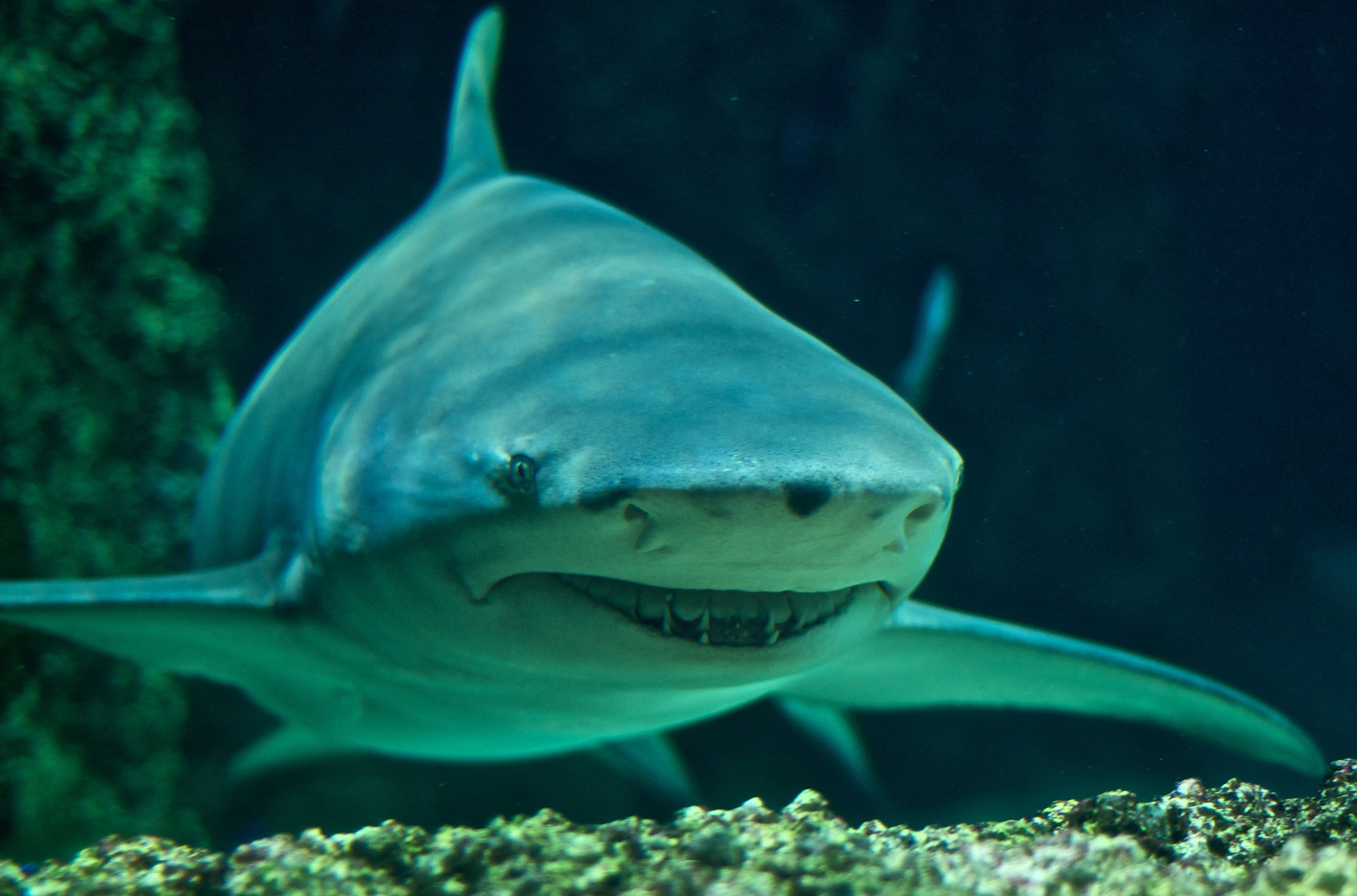 Sicklefin lemon shark (Negaprion acutidens) at the Sydney Aquarium.